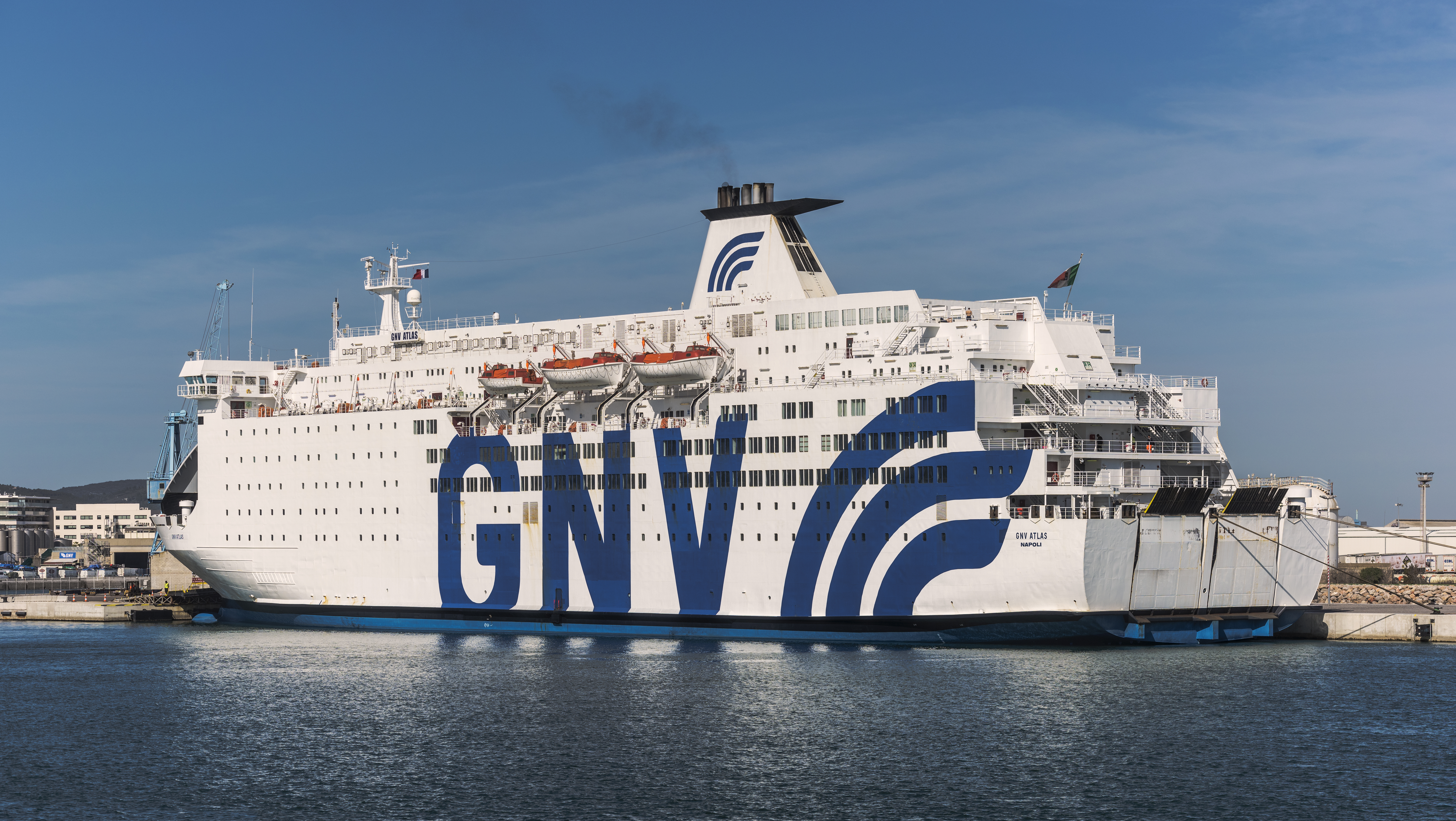 GNV ATLAS (ship, 1990) in the harbour of Sète, Hérault, France